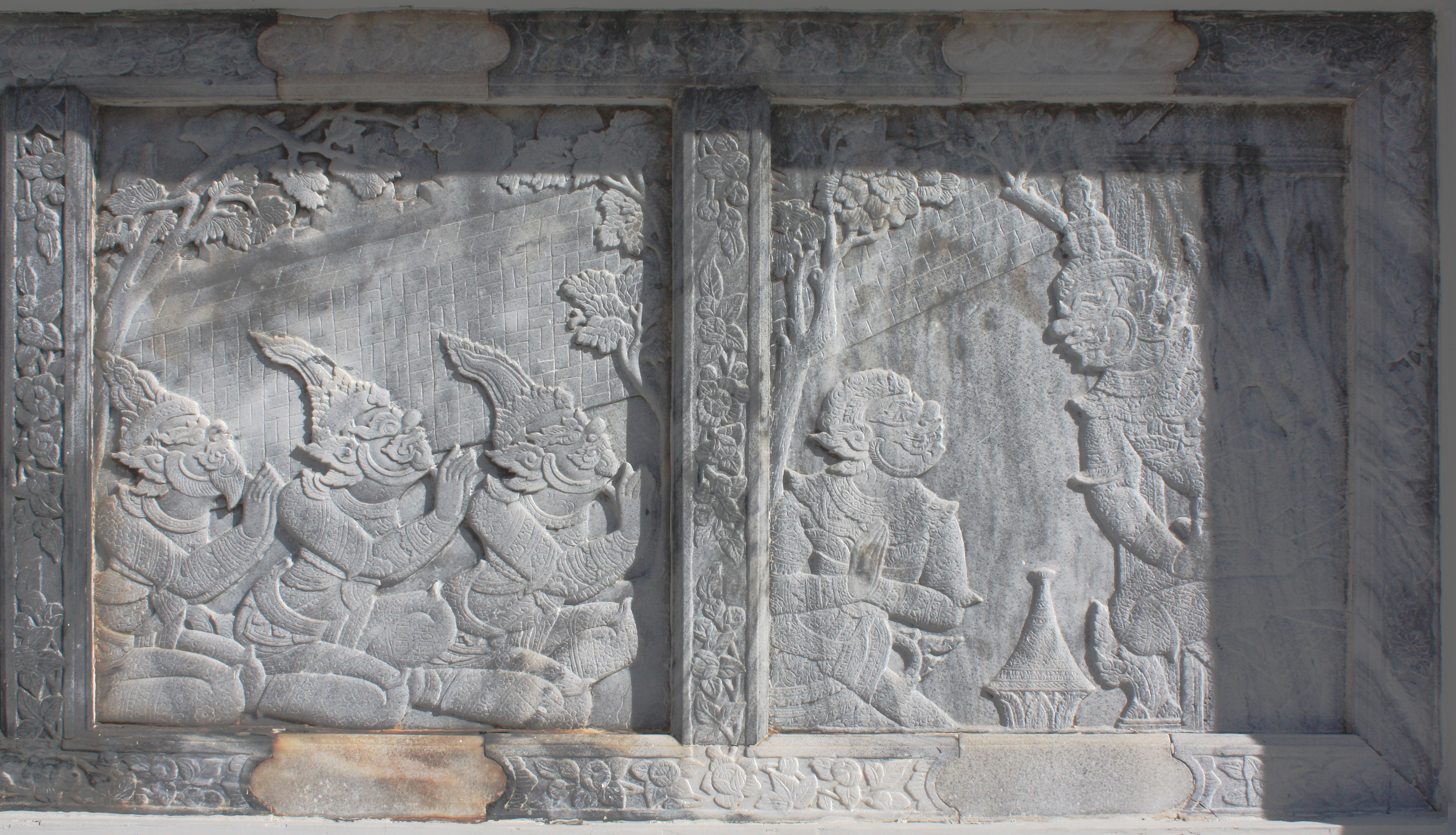 The Ramakien: (stone rubbings of the) bas-reliefs at Wat Pho (Phra Chetuphon), Bangkok relief #113 (right): "Totsagan persuades Kumpagan to fight the monkey army" relief #114 (left): "Demon courtiers attend Totsagan" (see J. M. Cadet: The Ramakien: The Stone Rubbings of the Thai Epic. Kodansha International Ltd., New York, 2nd ed. 1975, ISBN 0-87011-134-5)